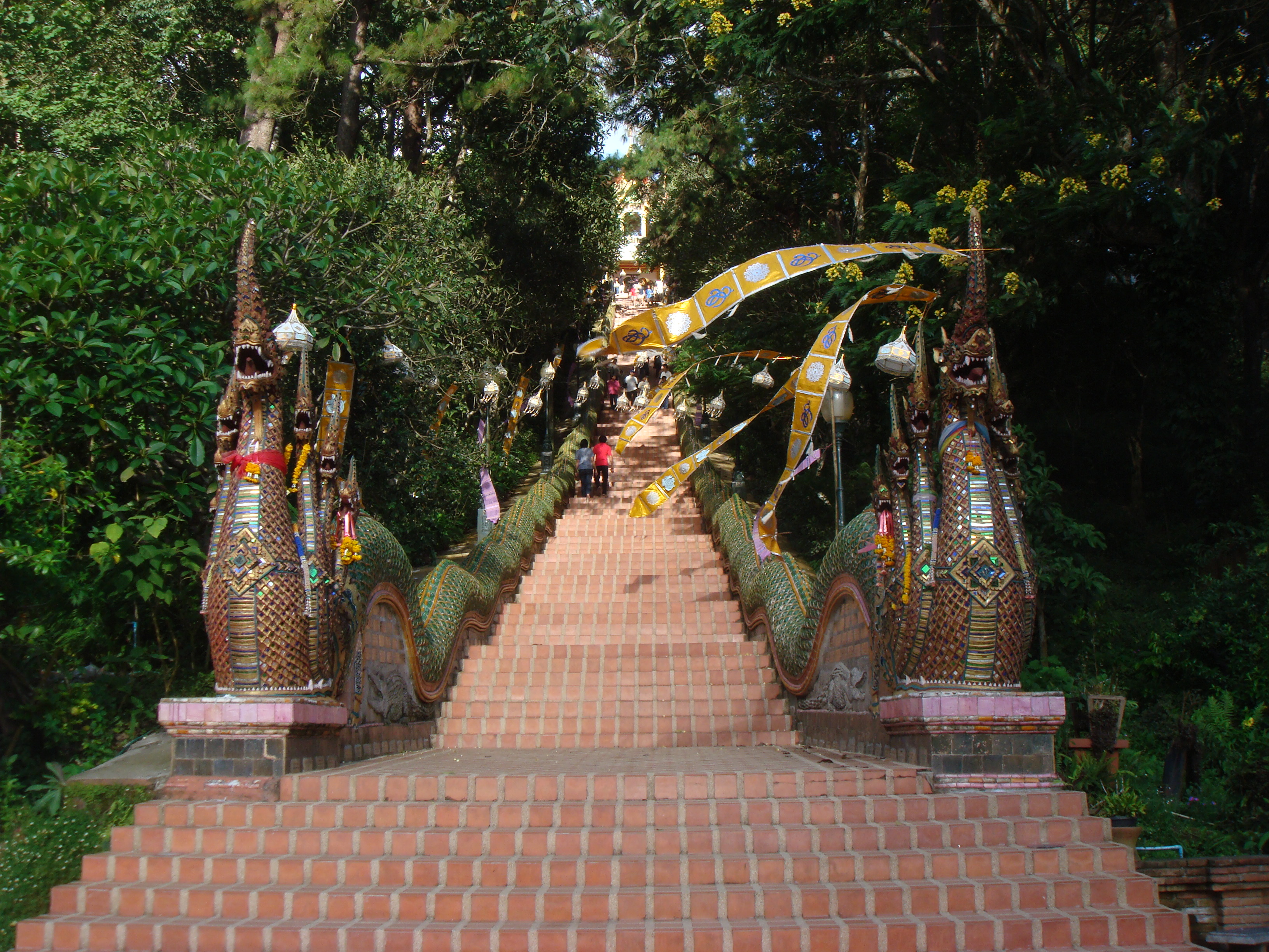 Wat Phrathat Doi Suthep